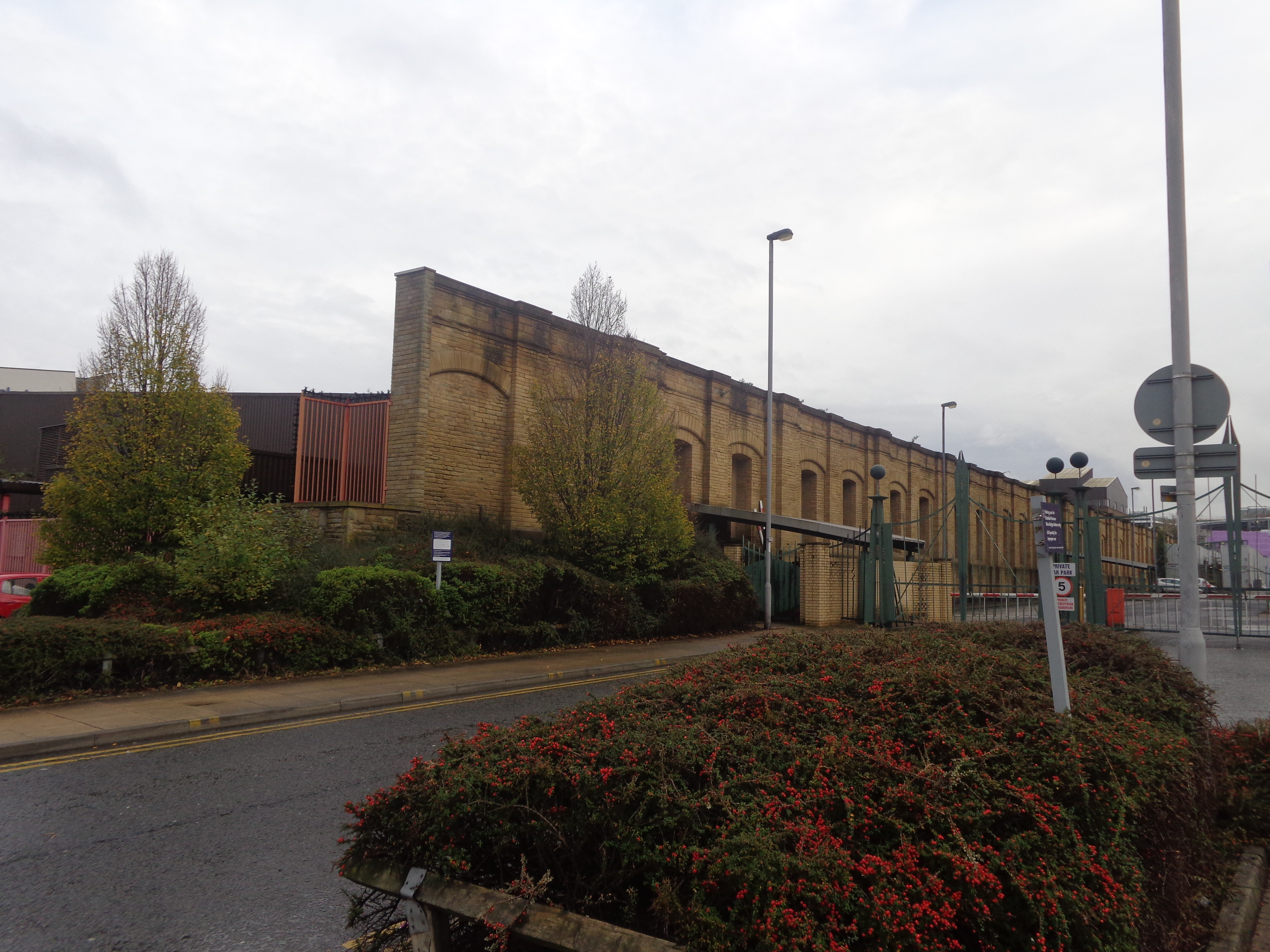 The remains of the former Bradford Forster Square railway station, Bradford, West Yorkshire. The new one is behind the photographer. Taken on the afternoon of Saturday the 8th of November 2014.